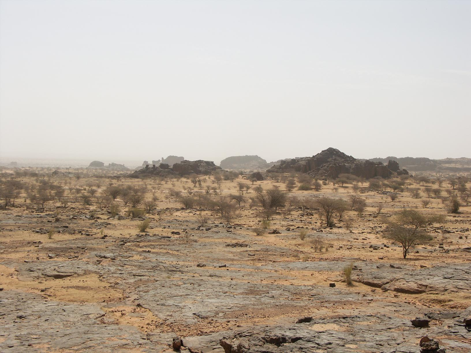 Somewhere south of Ayoun-el-Atrous in southern Mauritania, I believe. The photo looks hazy but the sun and heat were extremely strong.